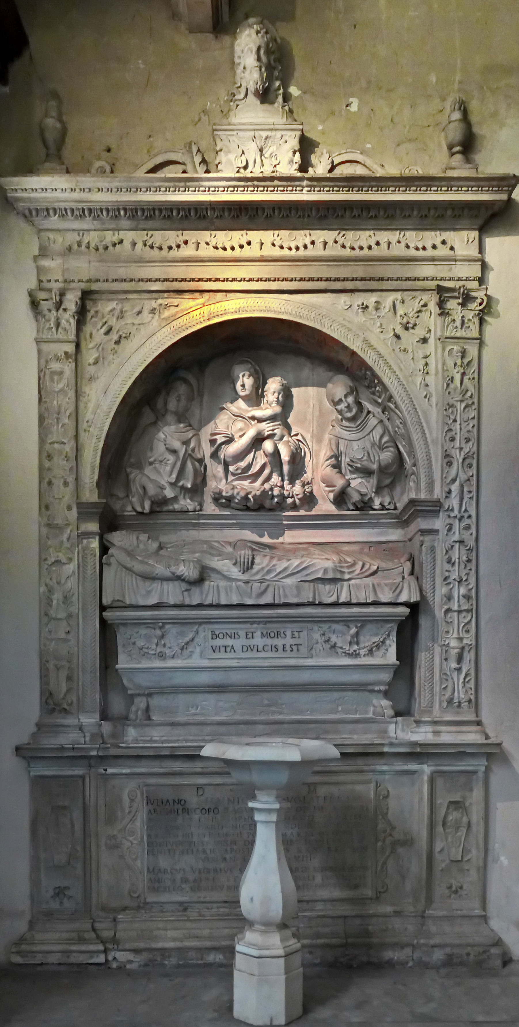 San Pietro in Montorio (Rome); Funeral monument for bishop Giuliano da Volterra